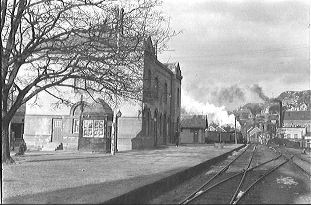 The old railway station in Egersund, on the Jæren Line.